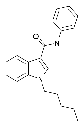 Structure of one of two compounds referred to as "SDB-005"